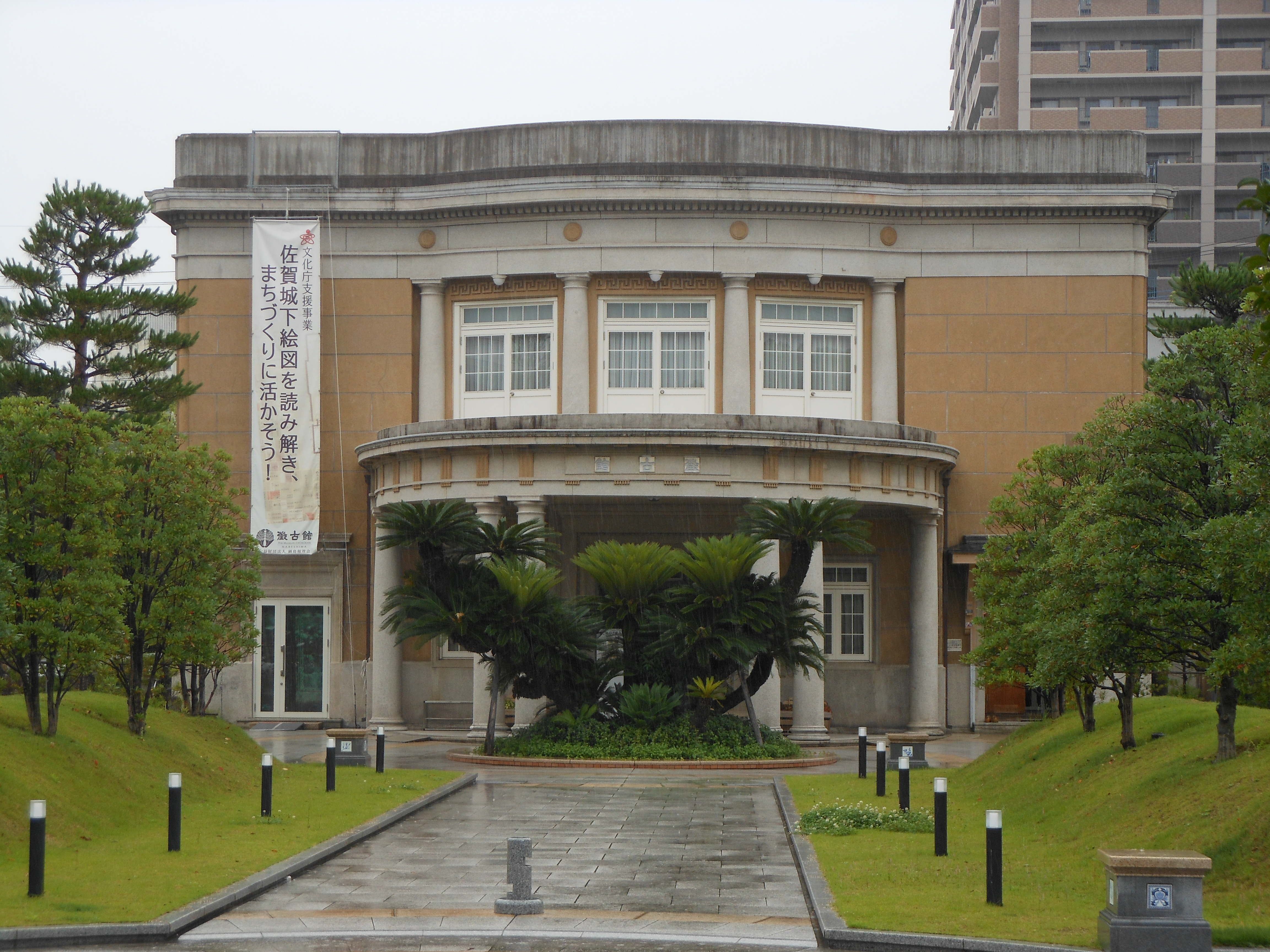 Choukokan, a old Western architecture in Saga city, Saga prefecture, Japan.